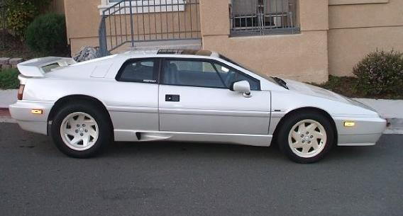 Picture of my 1988 Lotus Esprit Turbo, 40th Anniversary Commemorative Edition, #67 of 88. Side view